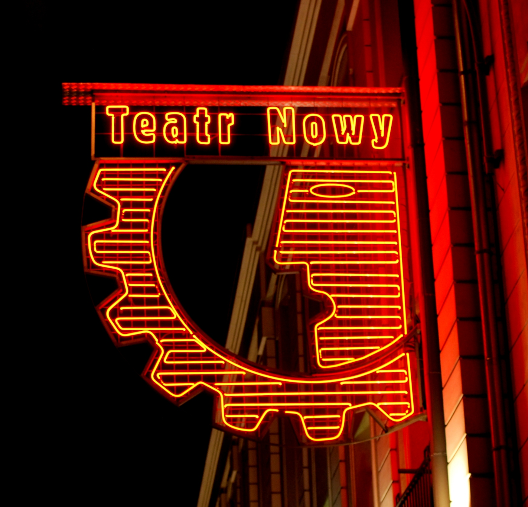 Teatr Nowy neon sign - night shot, Łódź 15 Więckowskiego Street